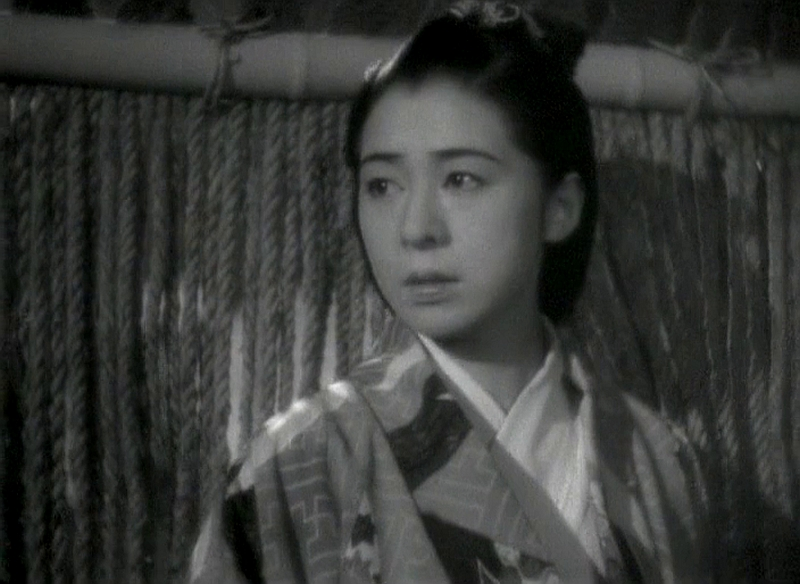 Haruyo Ichikawa in Nitōryū kaigen (二刀流開眼) directed by Daisuke Itō - 1943